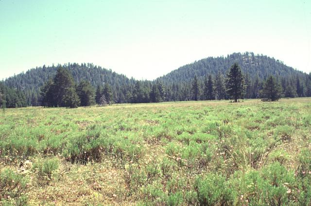 Twin Buttes are part of a group of cinder cones near Pleistocene Burney Mountain volcano. North Twin Butte (left) and South Twin Butte (right) rise above flat-lying forests and meadows SE of Burney Mountain. The cones are part of an area of extensive Quaternary volcanism north of the Lassen volcanic field. Twin Buttes and associated lava flows are of late-Pleistocene or early Holocene age.